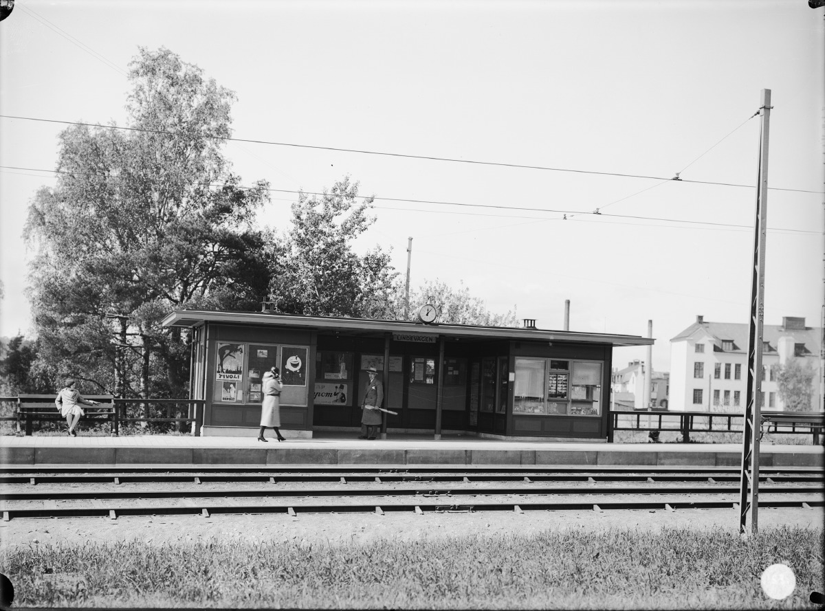 Lindevägen tramway stop in Enskede gård, Stockholm